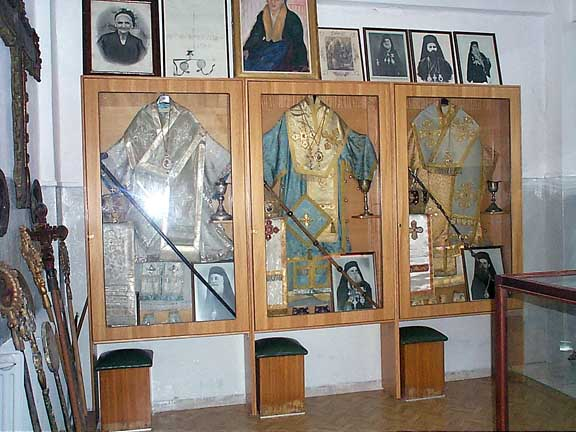 The Vestments of the last Three Metropolitans, image from the Ecclesiastical Museum, Edessa, Central Macedonia, Greece